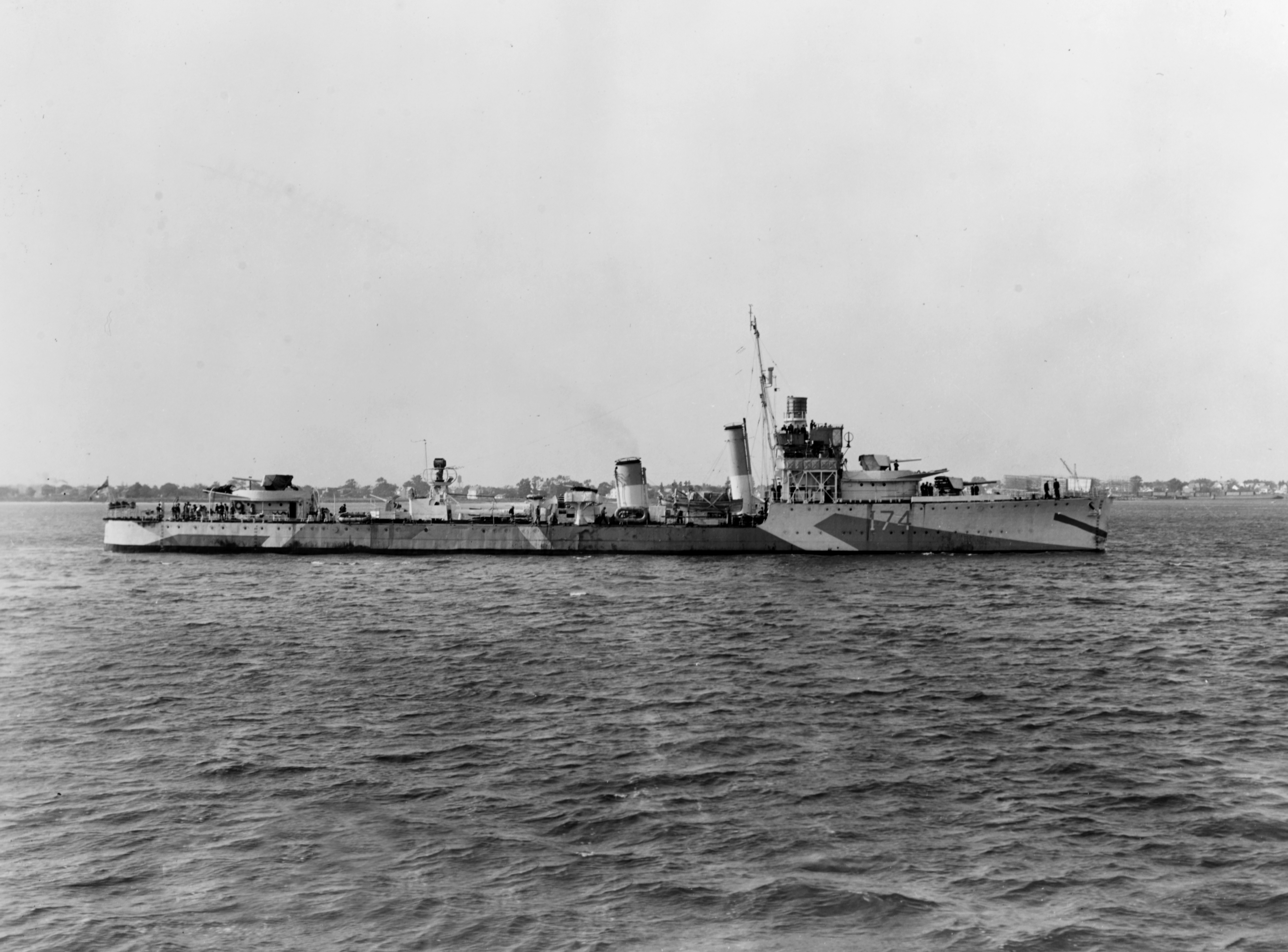 The Royal Navy destroyer HMS Wanderer (I74) off the Norfolk Naval Shipyard, Portsmouth, Virginia (USA), on 5 October 1942. This ship underwent a major conversion to a "long range escort" beginning in January 1943. Wanderer' pennant number had been changed from "D74" to "I74" in May 1940 to conform to alterations of identities for RN warships.